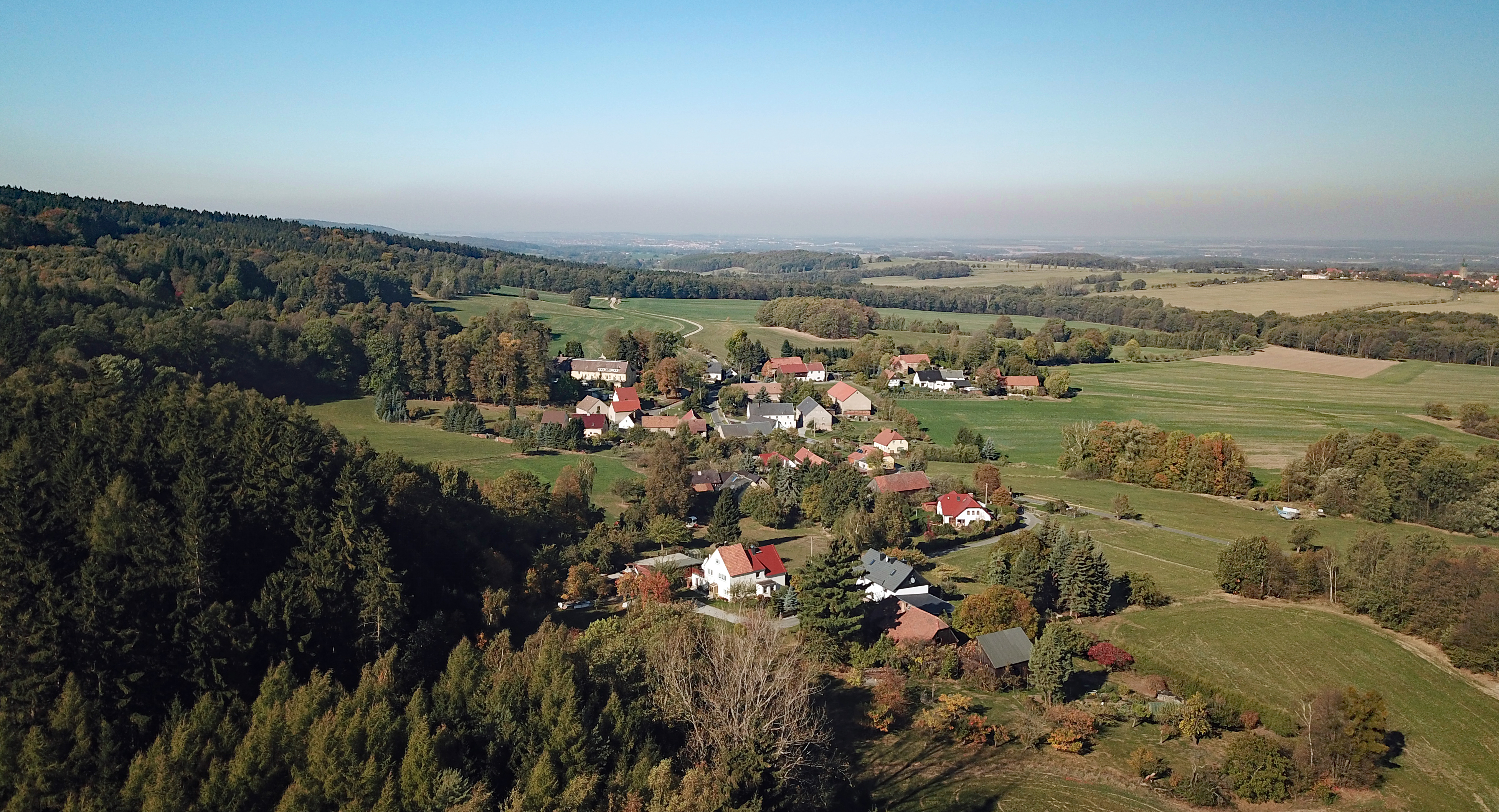 Sornßig (Hochkirch, Saxony, Germany) Hornjoserbsce: Powětrowy wobraz Žornosyk